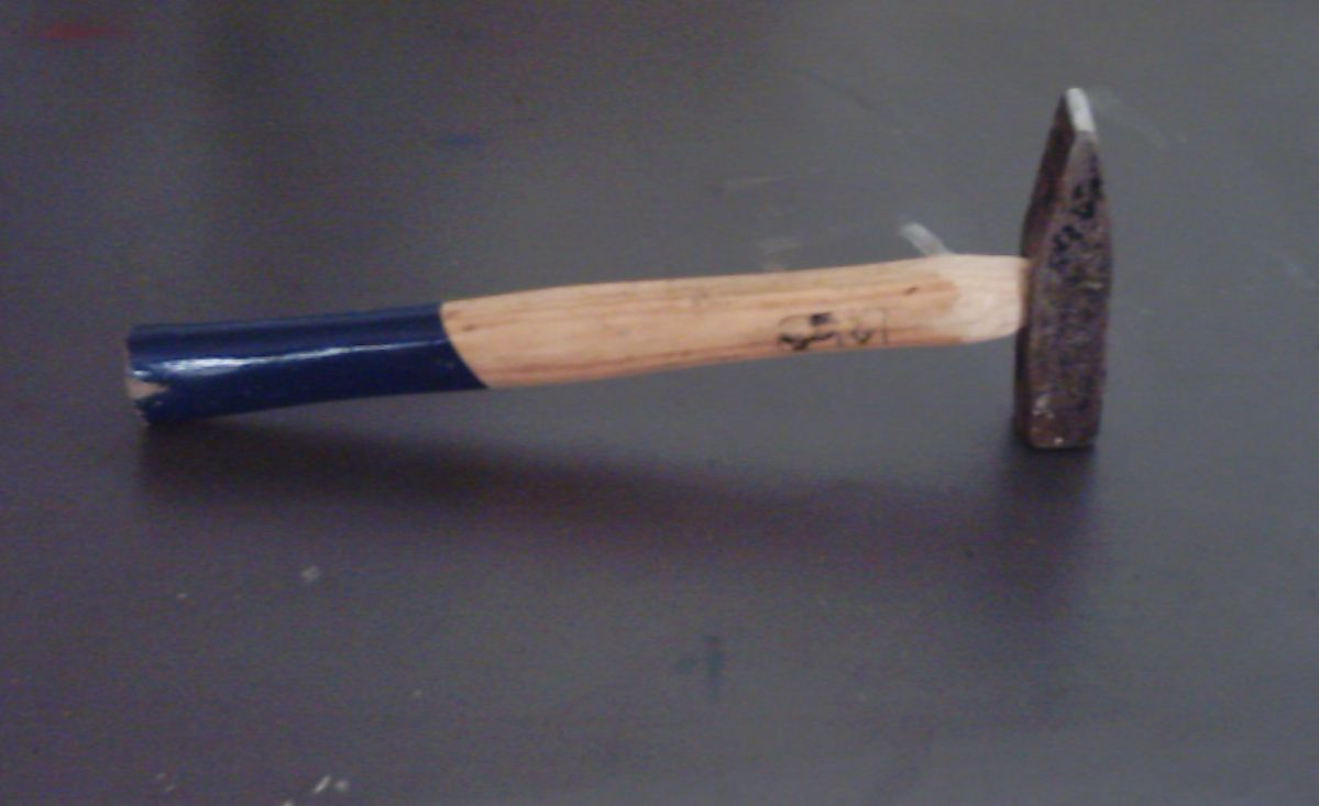 Hammer